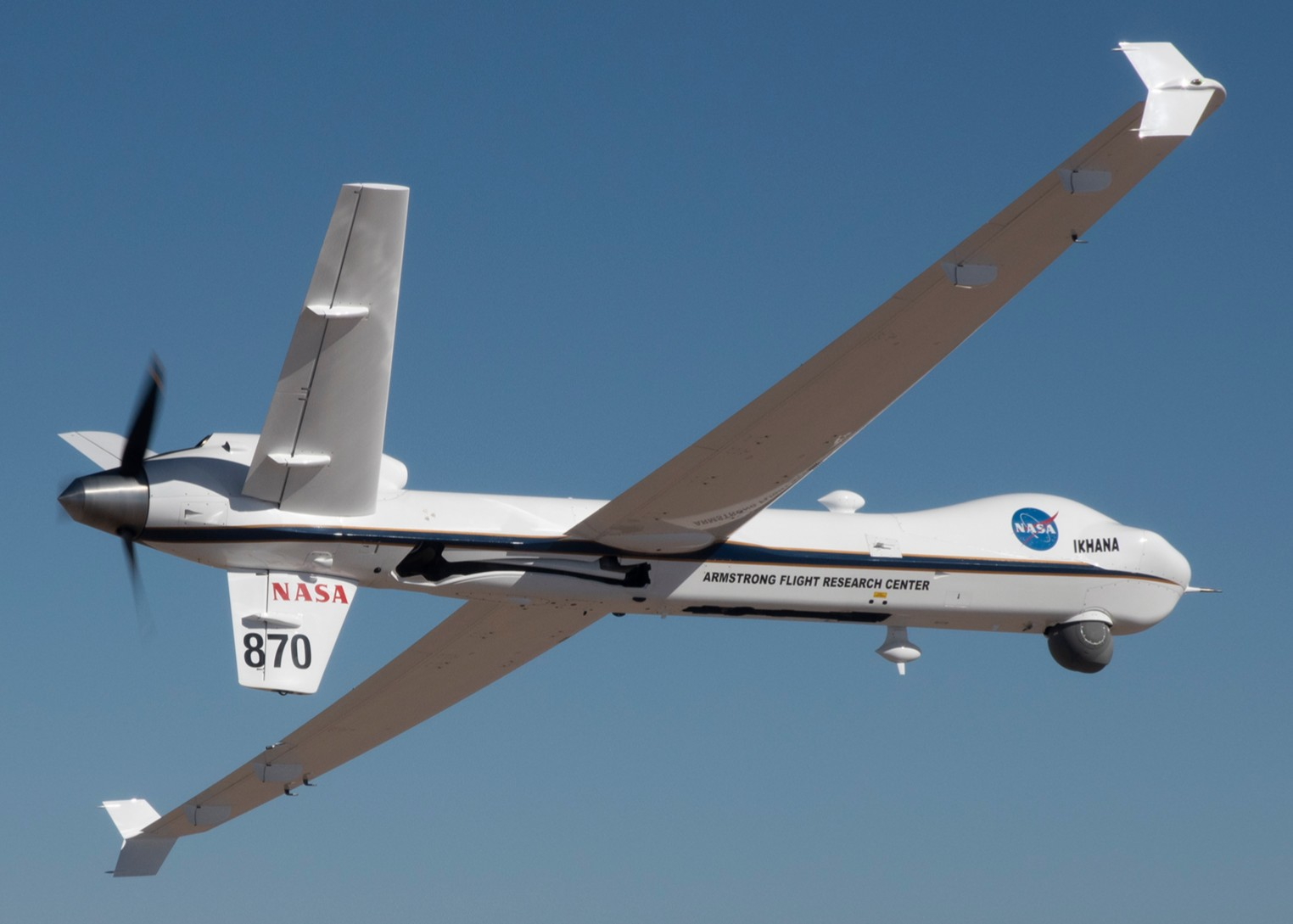 NASA’s remotely-piloted Ikhana aircraft, based at the agency’s Armstrong Flight Research Center, is flown in preparation for its first mission in public airspace without a safety chase aircraft.